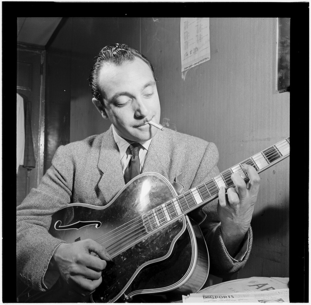 Django Reinhardt, Aquarium, New York, N.Y., ca. November 1946 (Photograph by William P. Gottlieb)